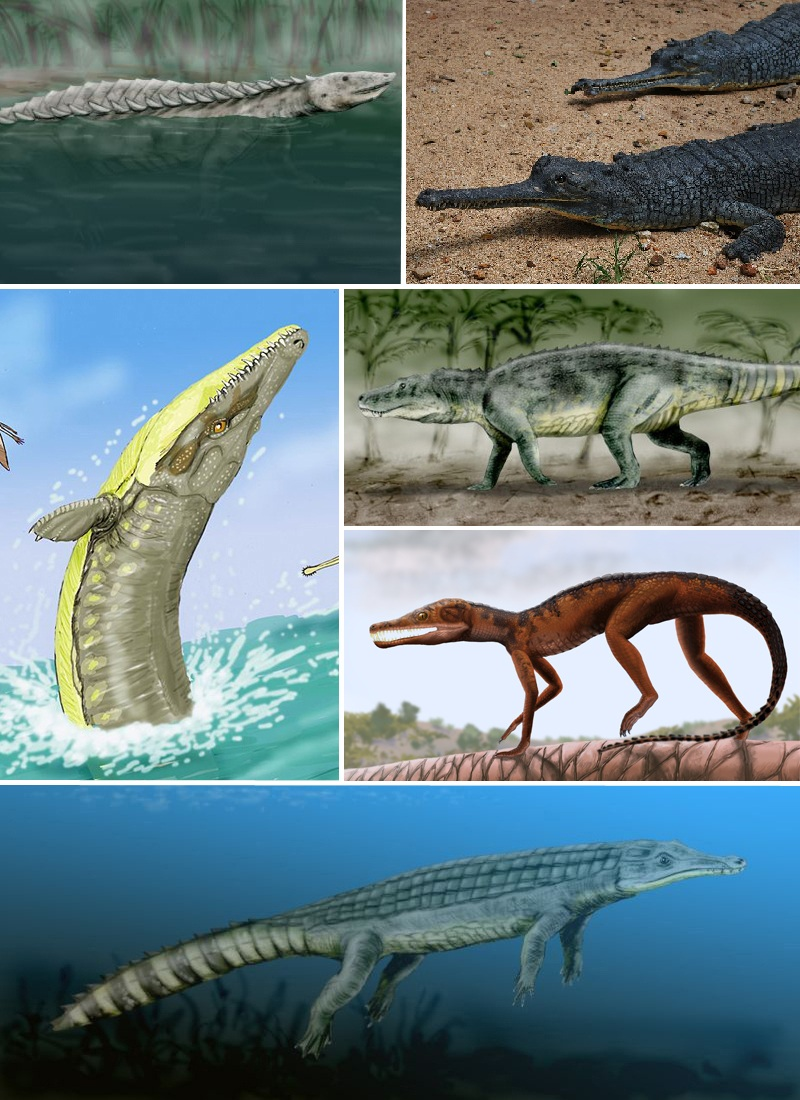 Collage of Pan-Crocodylians (Crurotarsi or Pseudosuchia). Clockwise from top right: Gavialis gangeticus, an extant crocodilian from Southeast Asia Saurosuchus galilei, a rauisuchian from the Late Triassic of Argentina Litargosuchus leptorhynchus, sphenosuchian crocodylomorph from the Early Jurassic of South Africa Chenanisuchus lateroculi, a short-snouted dyrosaurid crocodylomorph from the Late Paleocene of Morocco Dakosaurus maximus, a metriorhynchid from the Late Jurassic of Western Europe Longosuchus meani, an aetosaur from the Late Triassic of North America